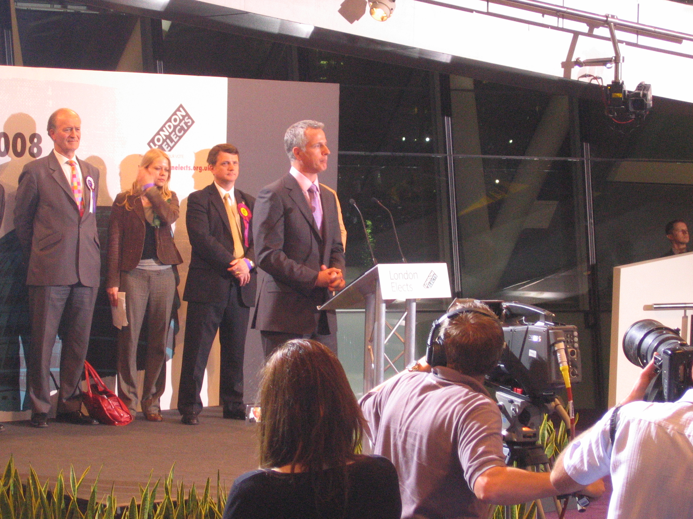 Brian Paddick (born 24 April 1958), the Liberal Democrat candidate for the London mayoral election, 2008, photographed giving a speech at City Hall in London after Boris Johnson's win had been announced.